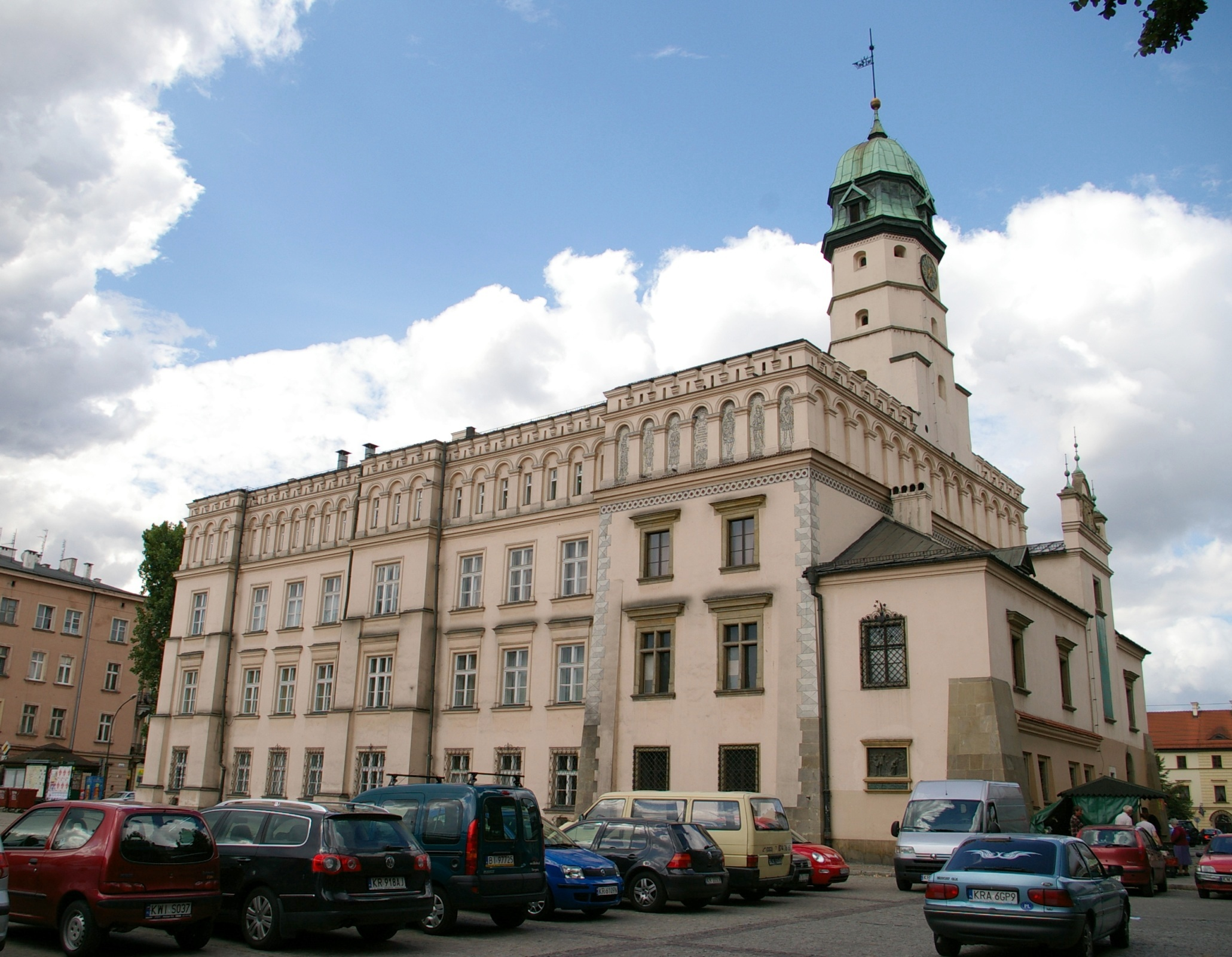 The City Hall in Kazimierz district of Krakow